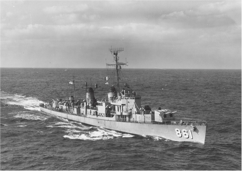 The U.S. Navy destroyer USS Harwood (DDE-861) underway on 3 February 1960.